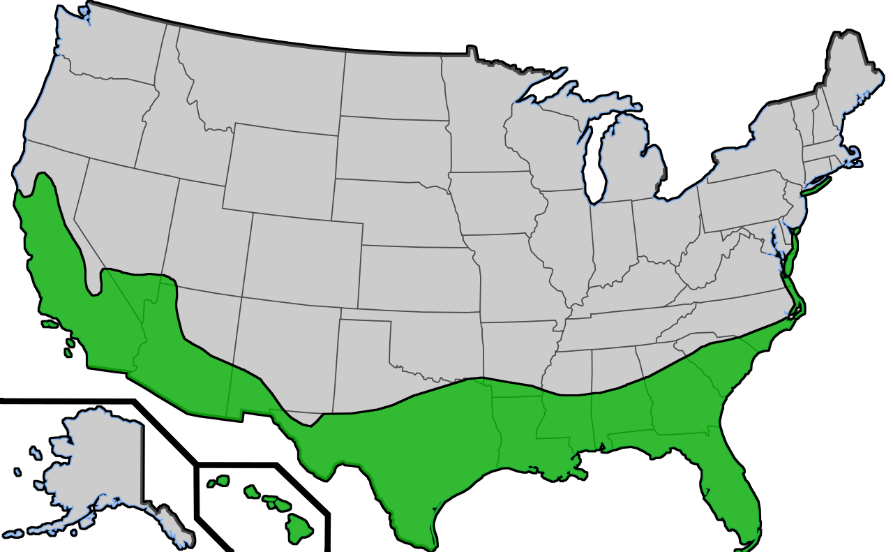 The approximate cultivation range of Pindo Palms in the US with little to no winter protection.